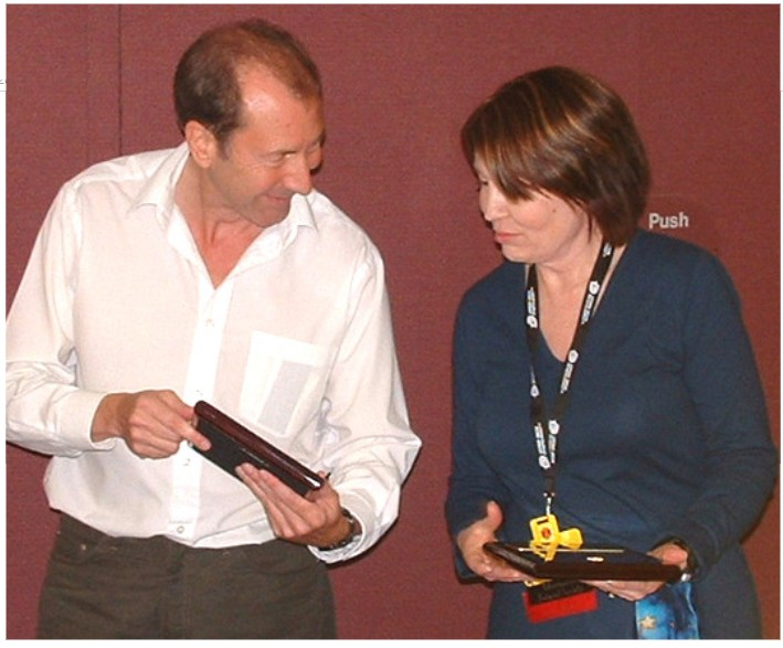 The Prometheus Awards in 2006 were awarded on August 25 at the World Science Fiction Convention (Worldcon) in Anaheim, California. David Lloyd has accepted a Hall of Fame award for the V for Vendetta graphic novel. He is on the left in the photograph, smiling and showing his award to Fran Van Cleave. Van Cleave holds a special award she accepted on behalf of Joss Whedon for Serenity. The photograph was taken by Kent Van Cleave and first published in Prometheus 25 (1), 2006.